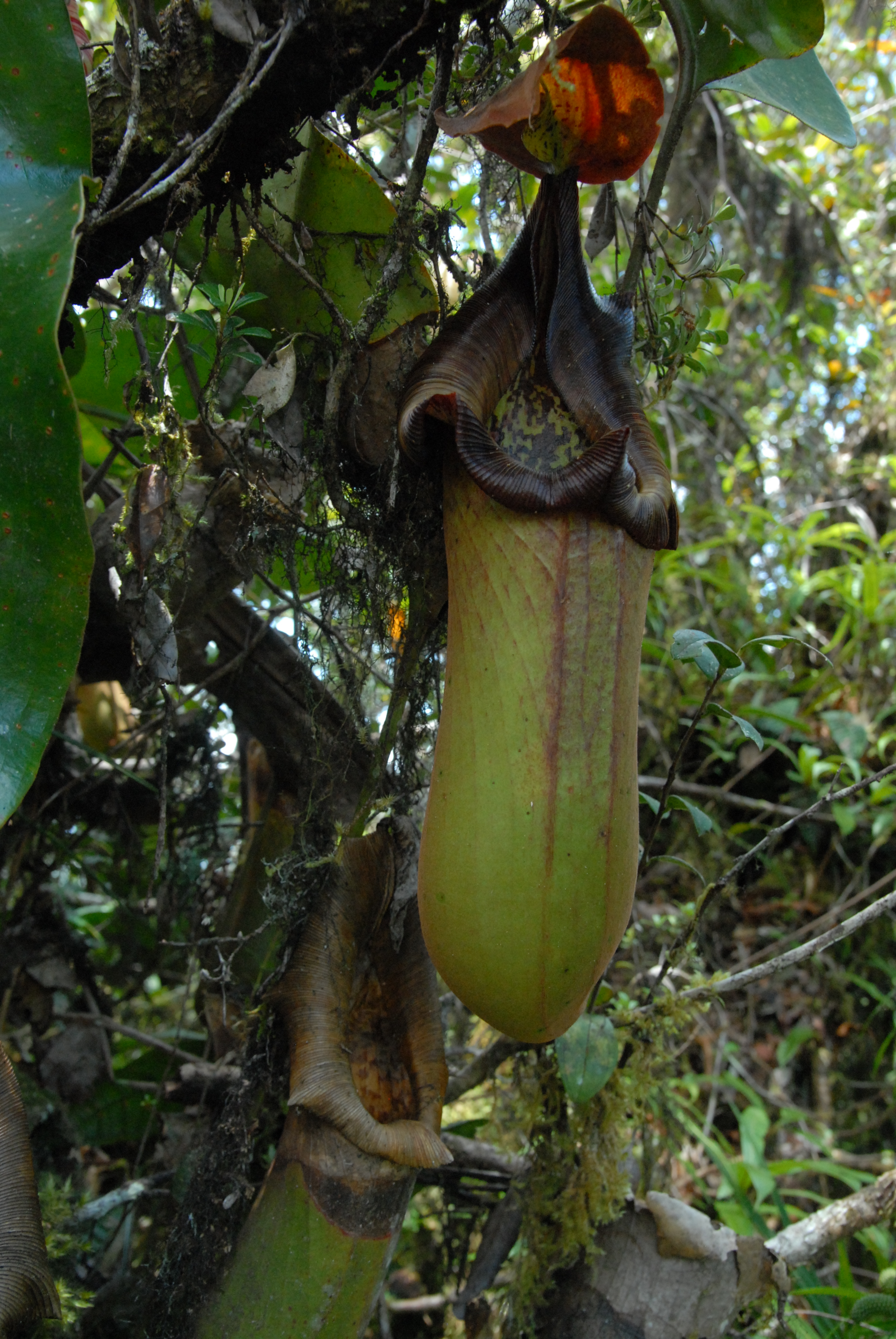 Nepenthes truncata pitcher with dark peristome from the Pantaron Mountain Range, Mindanao, Philippines